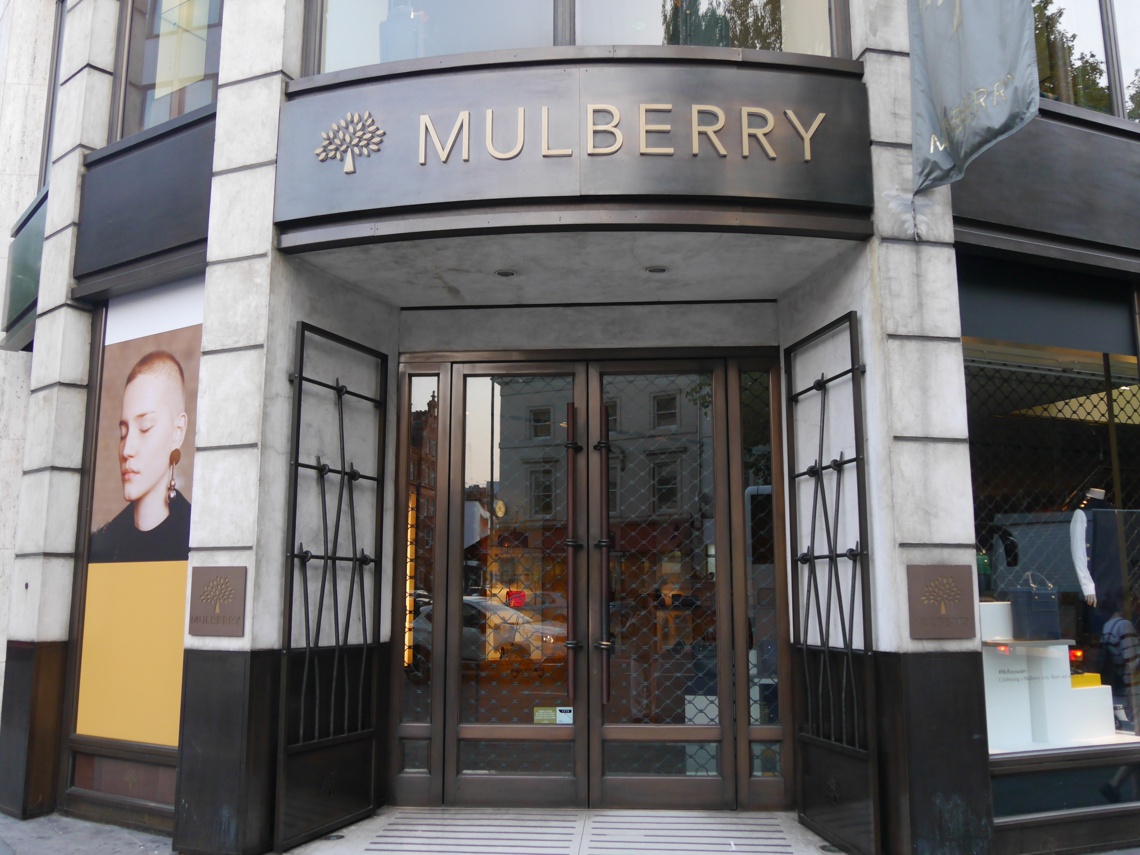 Brompton Road, London, June 2016